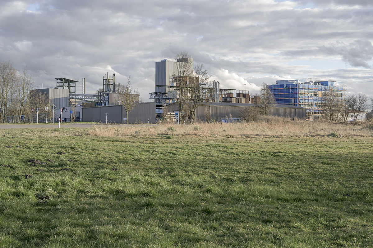 Waldstetten, Bavaria, Chemical industries Carl Bucher